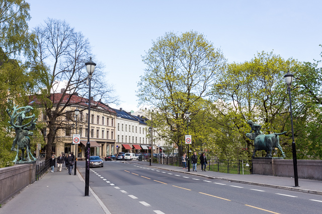 Ankerbrua meets Markveien and Søndre gate on Grünerløkka